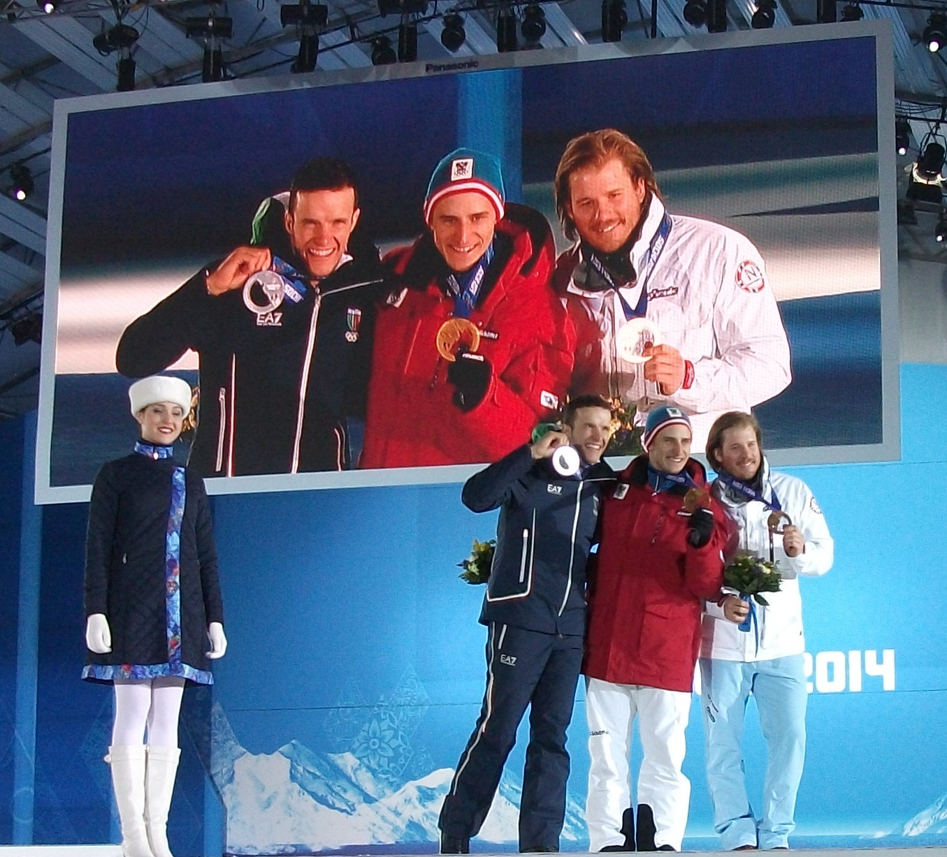 Rewarding of winners in downhill racing in the Olympic Park at the Winter Olympic Games in Sochi.